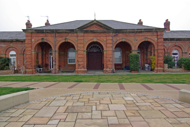 Former Railway Station, Hornsea, East Riding of Yorkshire, England.The last passenger train to serve Hornsea Town ran in October 1964 - a victim of the Beeching era closure programme; the branch to Withernsea closed on the same date. Since then the rather impressive station building has been restored for residential use; however, the appearance is somewhat altered because when in use the station had a canopy covering the platform and extending over the track.